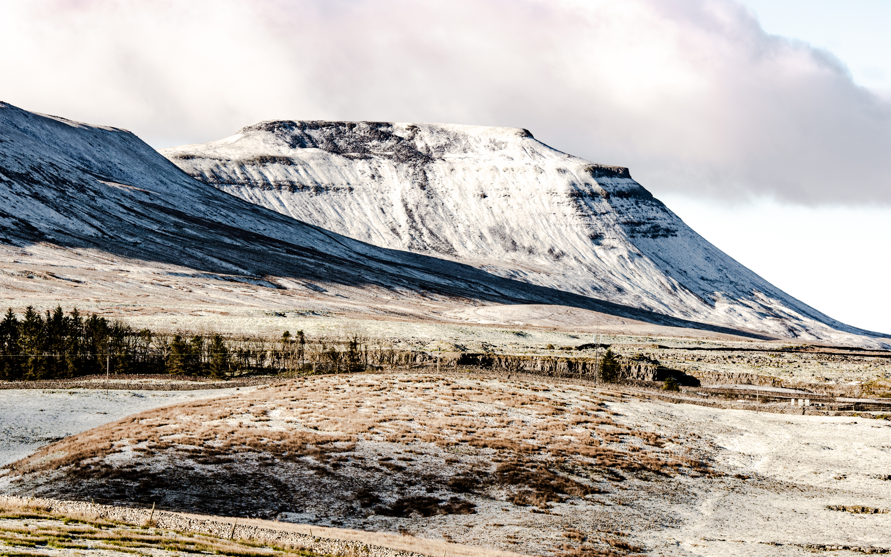 Mountain, second-tallest (723m) peak in Yorkshire Dales, England, UK. One of the Yorkshire Three Peaks